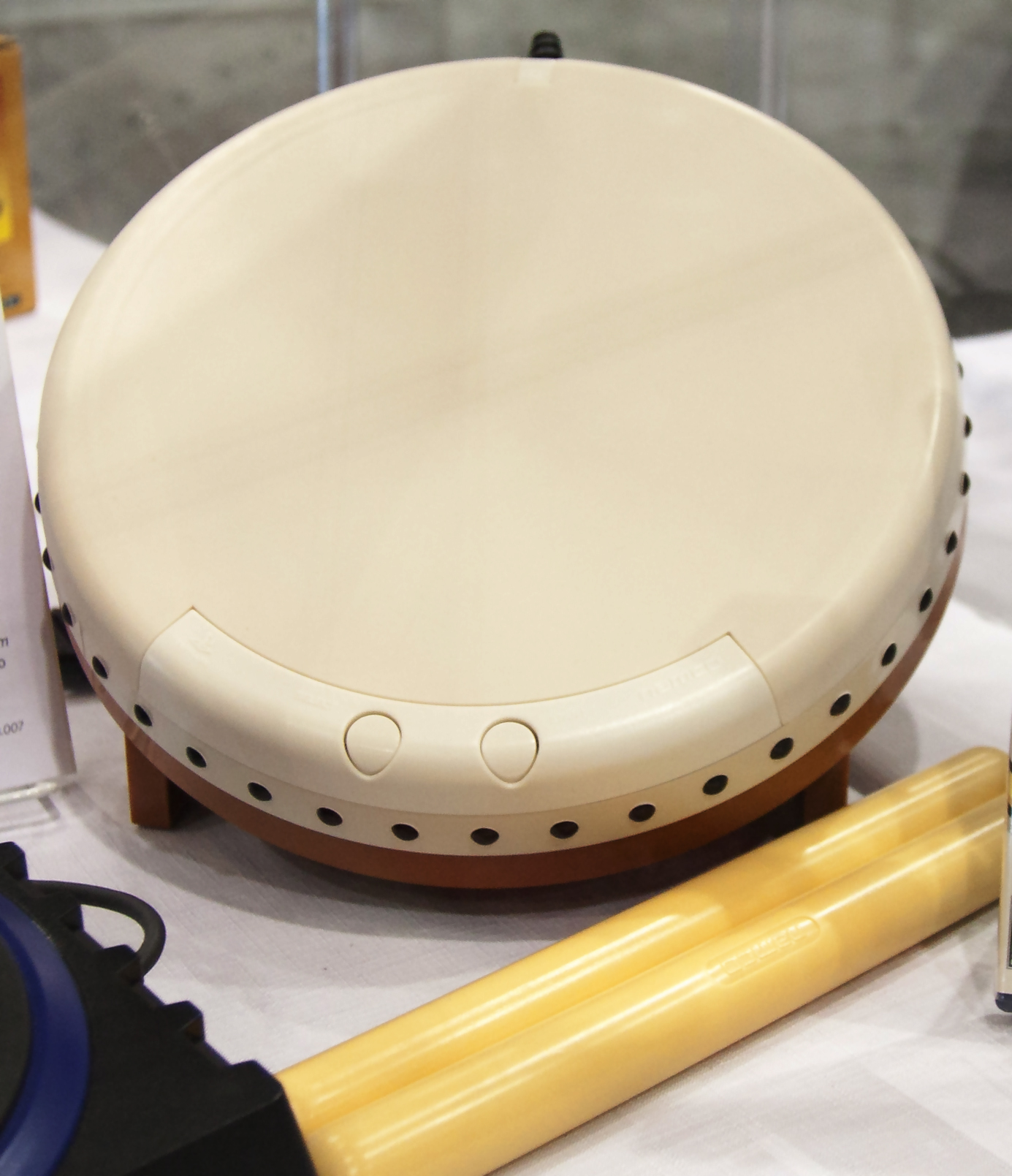 An official PS2 controller for TnT.